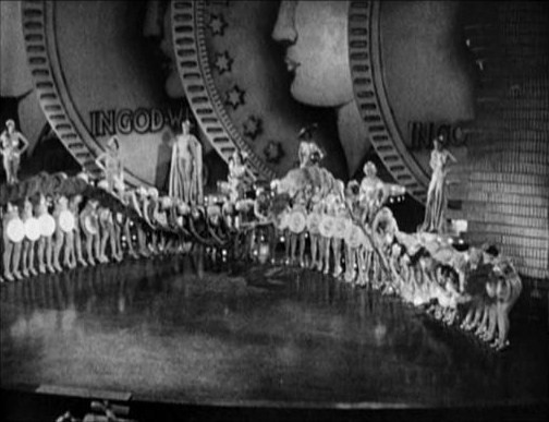 Frame from public domain trailer for 1933 Warner Bros. film Gold Diggers of 1933 showing musical number "Dance of the Dollars"